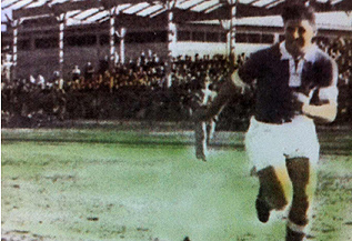 Mandatory Palestine striker Gaul Machlis against Lebanon.